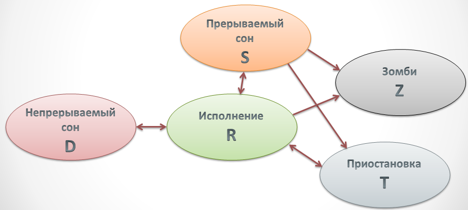 A diagram showing different states of a Unix process